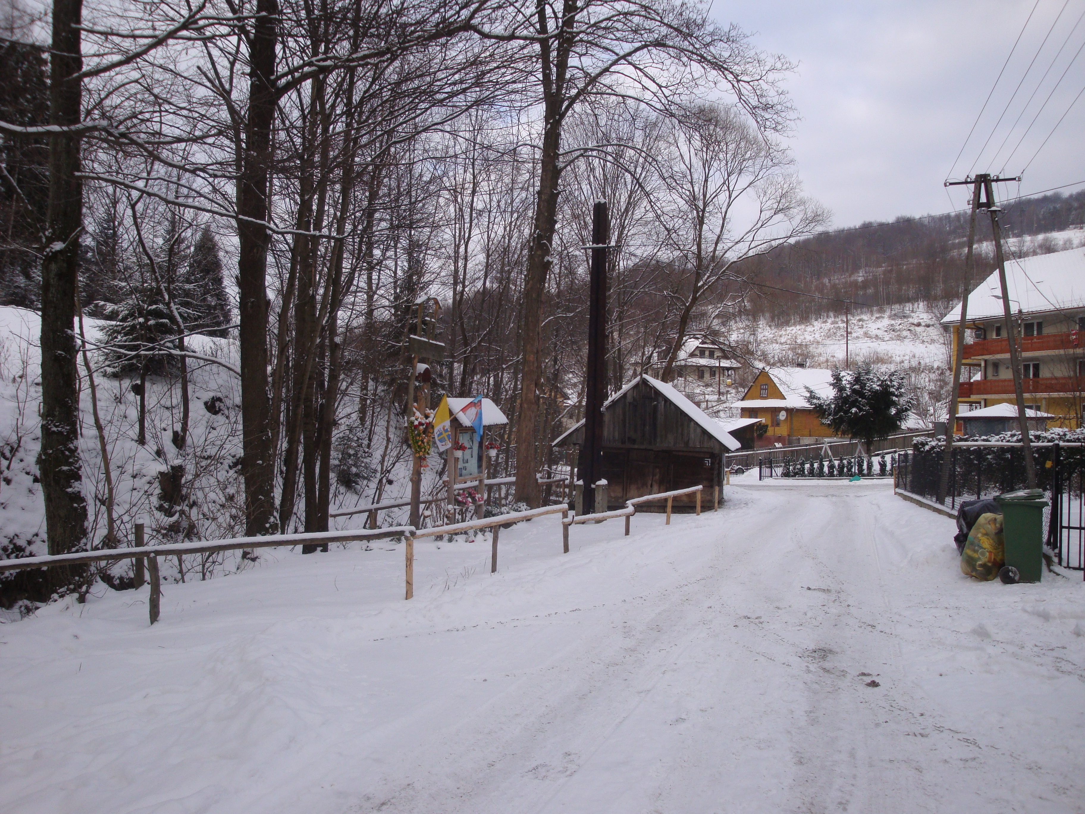 Rzyki - village in Lesser Poland Voivodeship, Poland. Old Forge and installation memorising pope John Paul II.